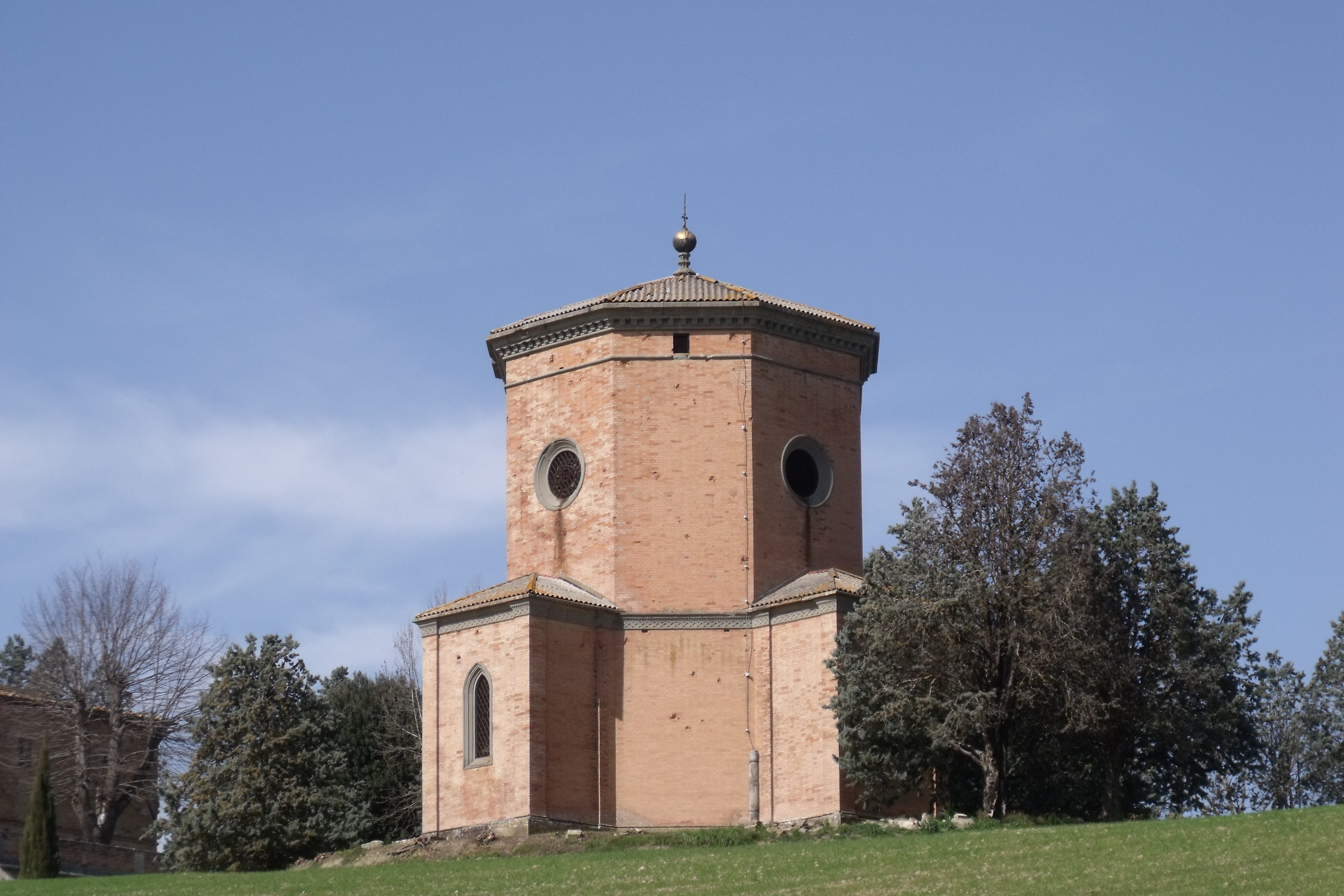 Cappella Pieri Nerli in Quinciano, Monteroni d’Arbia, Province of Siena, Tuscany, Italy